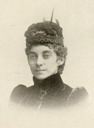 Photographic portrait of American poet Josephine Spencer (1861–1928). From American Women: Fifteen Hundred Biographies with Over 1,400 Portraits, Frances E. Willard and Mary A. Livermore, editors. Mast, Crowell & Kirkpatrick, 1897 (revised edition from 1893), vol. 2, p. 673. Cropped version.